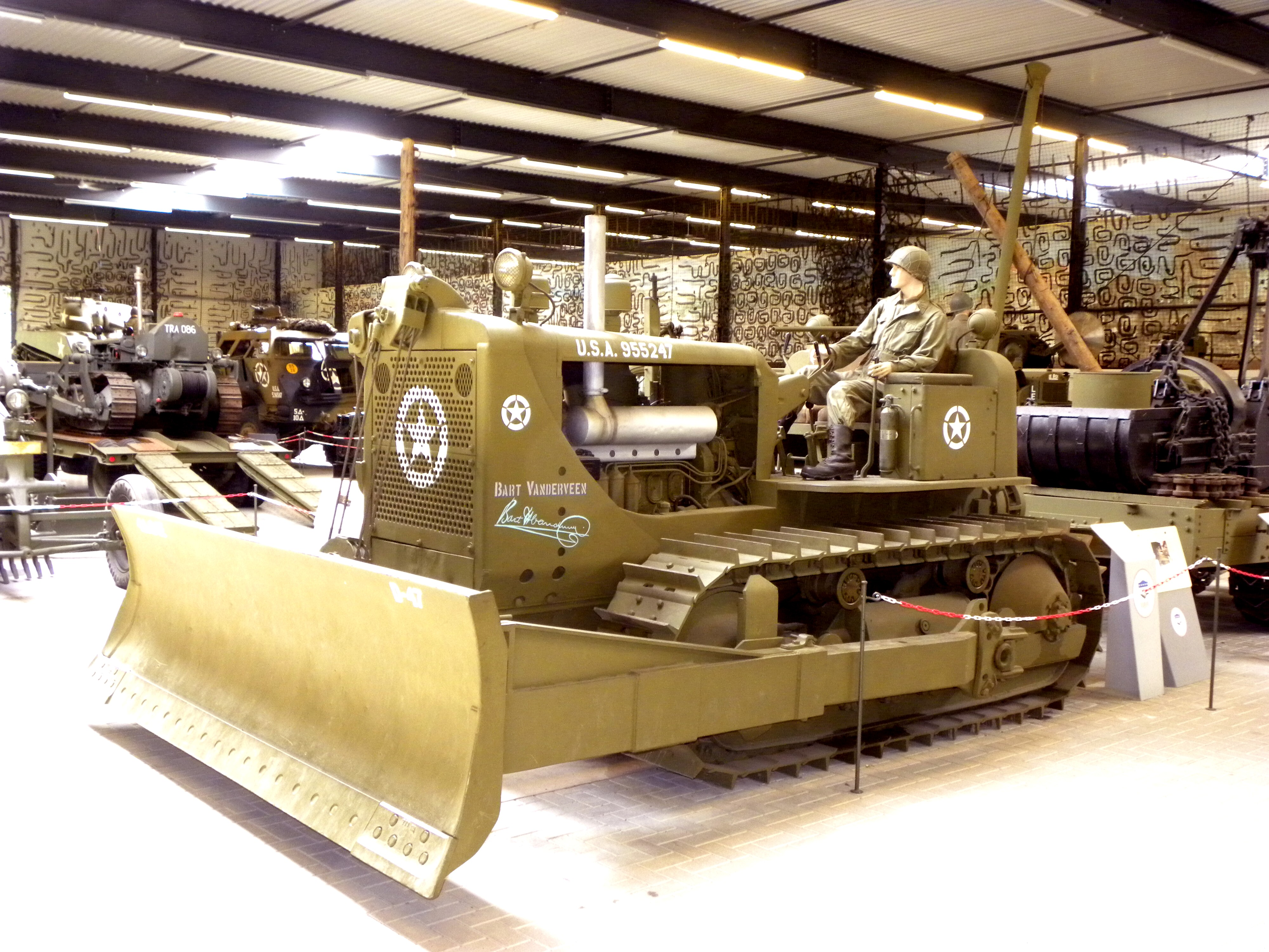 Allis Chalmers HD - 15A produced since 1945